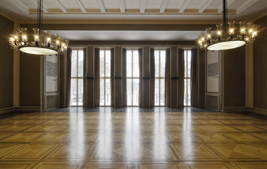 Berlin-Dahlem, ehem. US-Hauptquartier (jetzt Wohnanlage The Metropolitan Gardens). Festsaal im Hauptgebäude (The Marble Gallery).